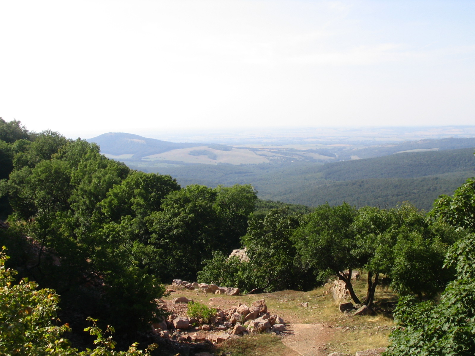 middle part of the Gerecse mountains